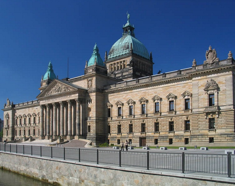 Reichsgerichtsgebäude in Leipzig (seat of the Federal Administrative Court of Germany)